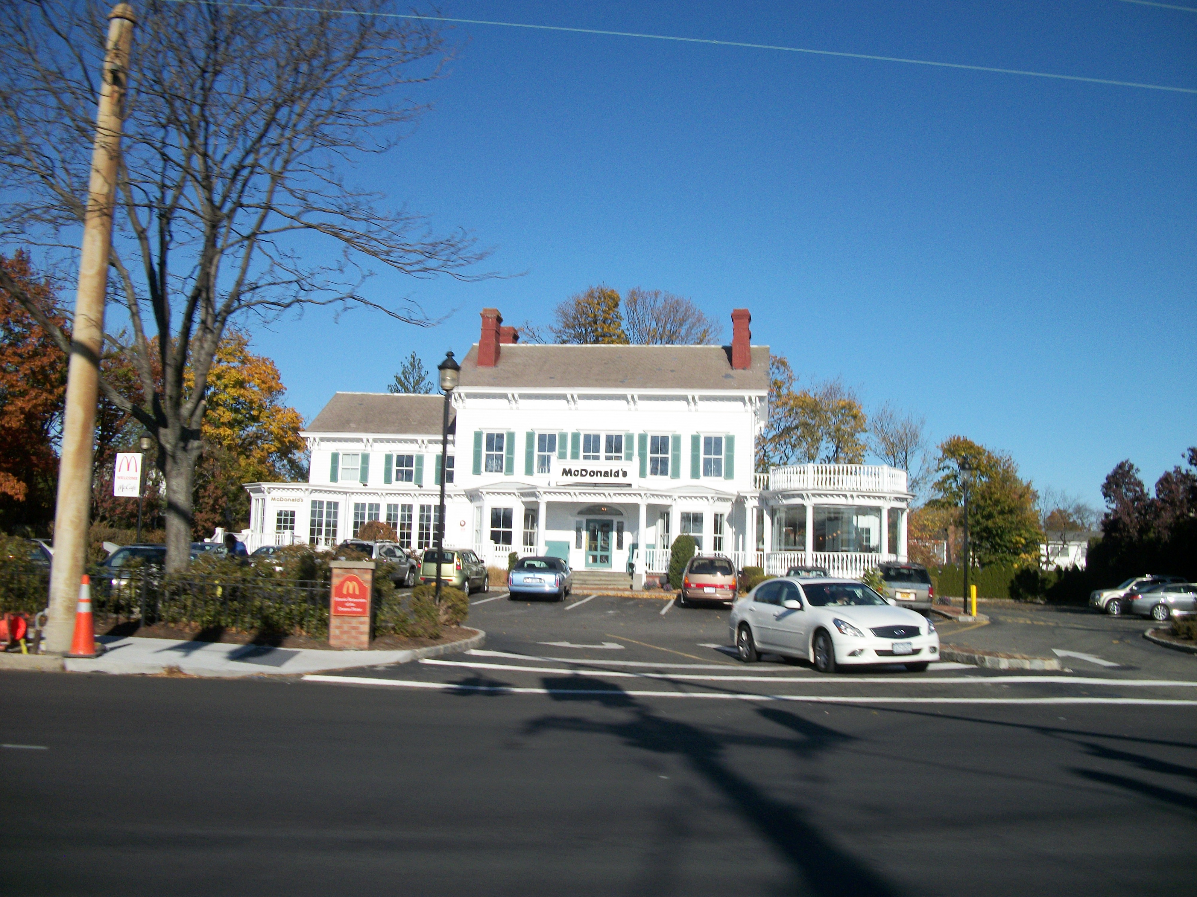 The historic Joseph Denton House in New Hyde Park, New York, that was converted into a McDonald's restaurant as seen from New York State Route 25. Efforts to take additional and improved photographs of the house have been met with rejection from the management of this branch of the restaurant, so this one drive-by photograph will have to be sufficient.